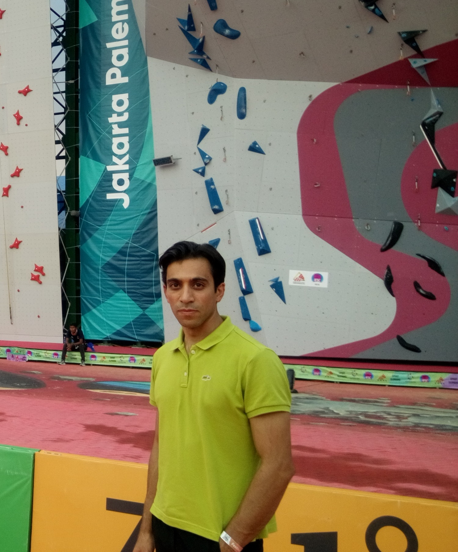 Portrait of Mansour Aghaei, coach of Iran national climbing team during Jakarta 2018 Asian games